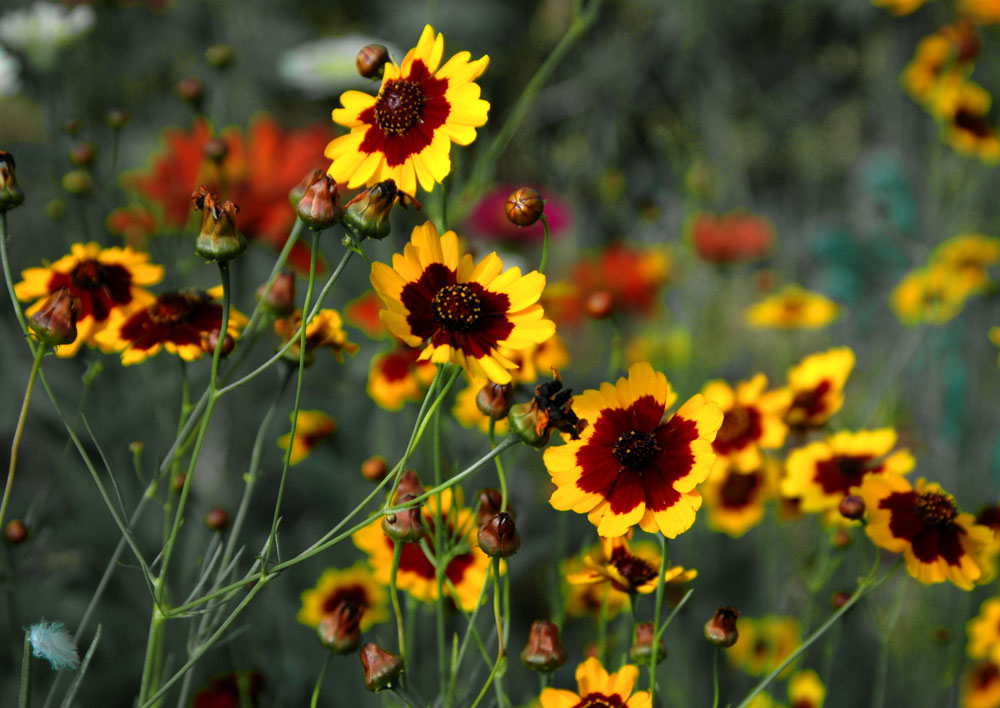 Plains Coreopsis, Coreopsis tinctoria August 2005, Nikon D70, Photo by Cory Maylett